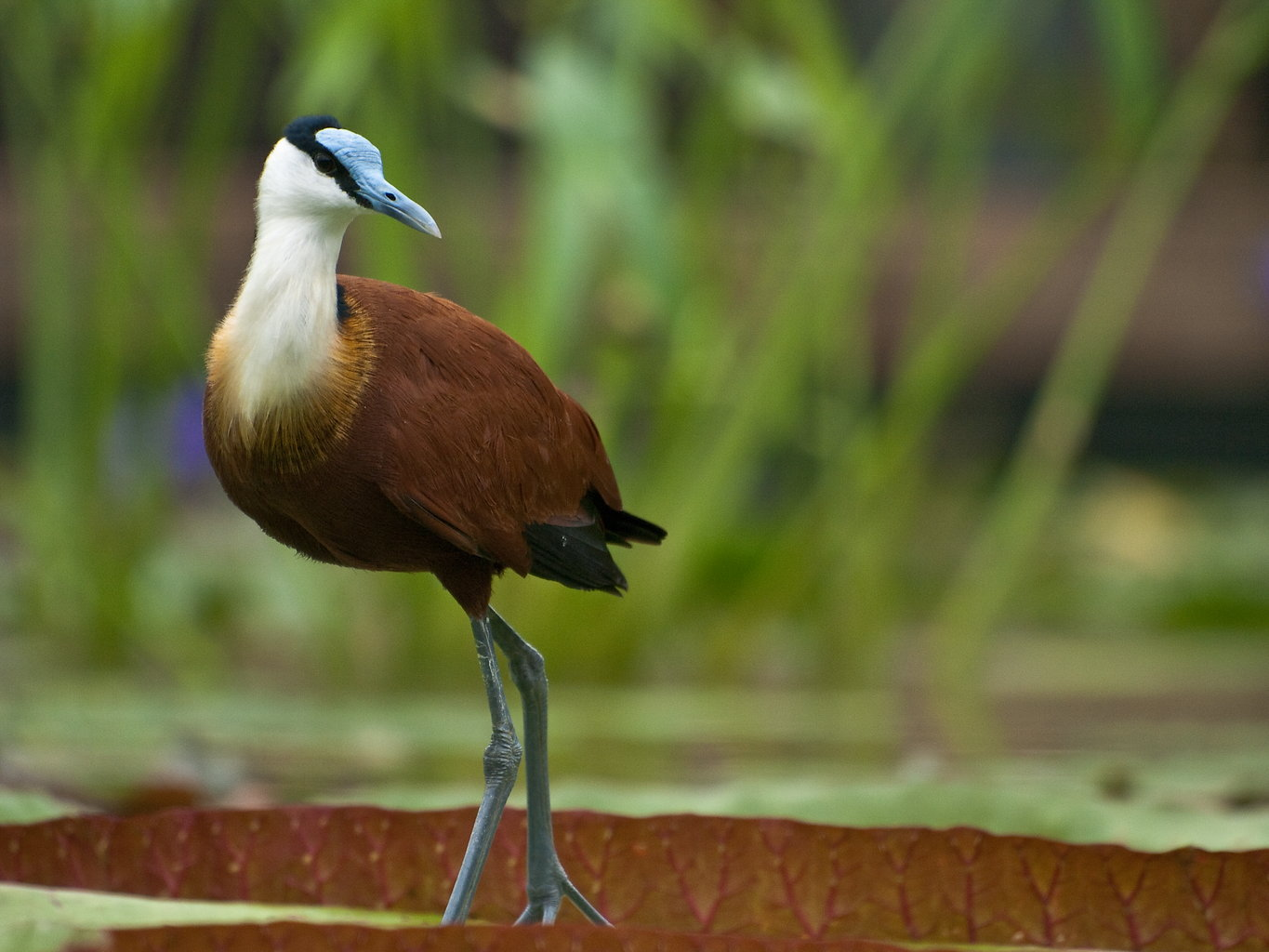 An African Jacana at Kakegawa Kacho-en, Kakegawa, Shizuoka, Japan.